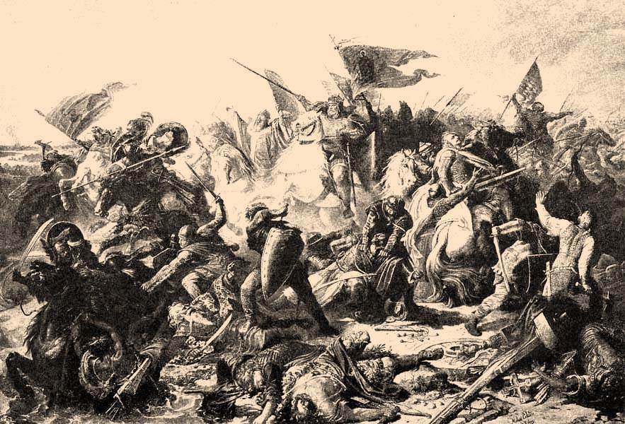 Image about the Battle of Lechfeld (Augsburg) from 955, showing the death of Conrad the Red, Duke of Lorraine, and the victorious Otto.